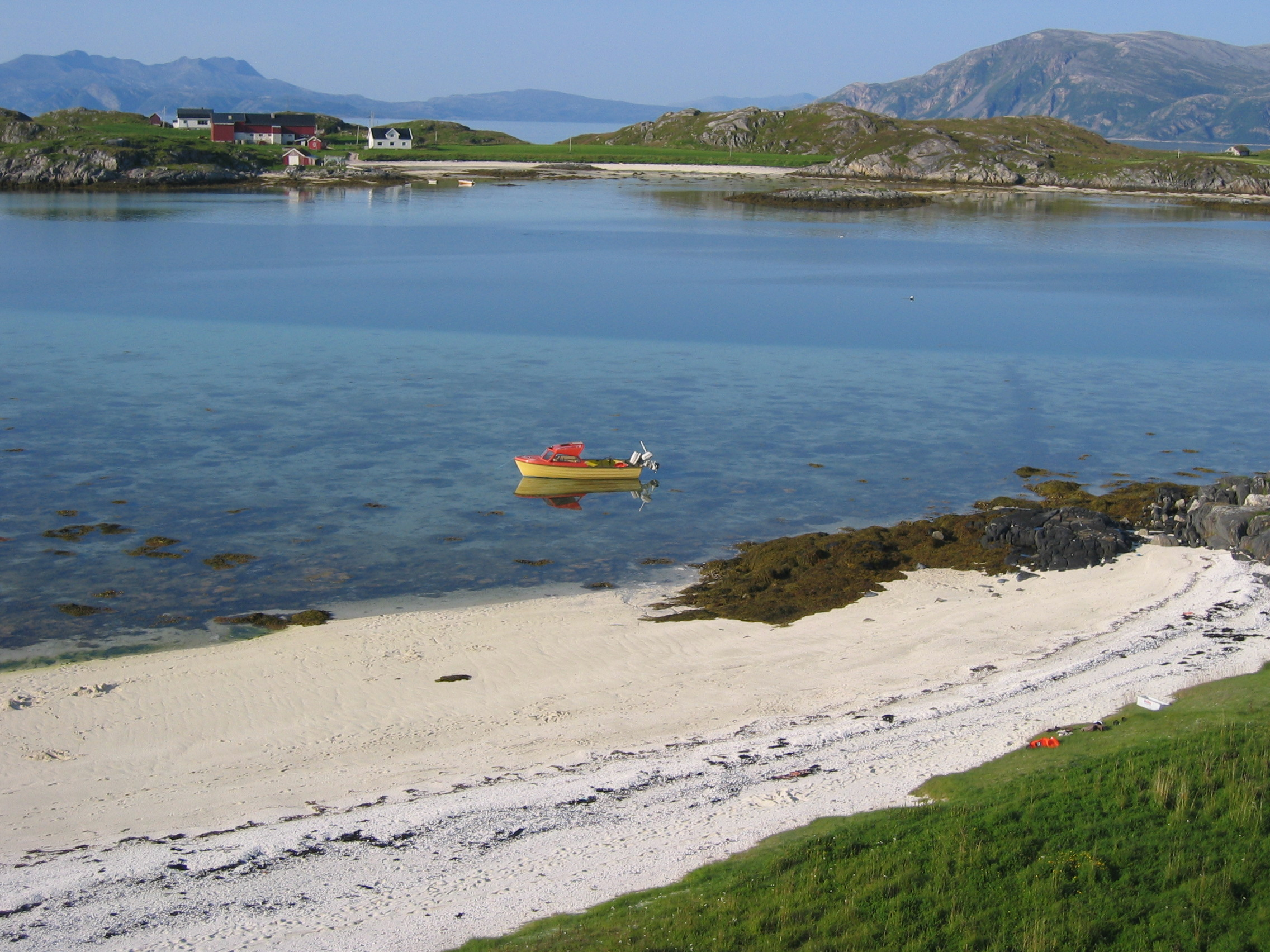 Some of the beaches at the small islands of Musvær outside Tromsø, Norway.